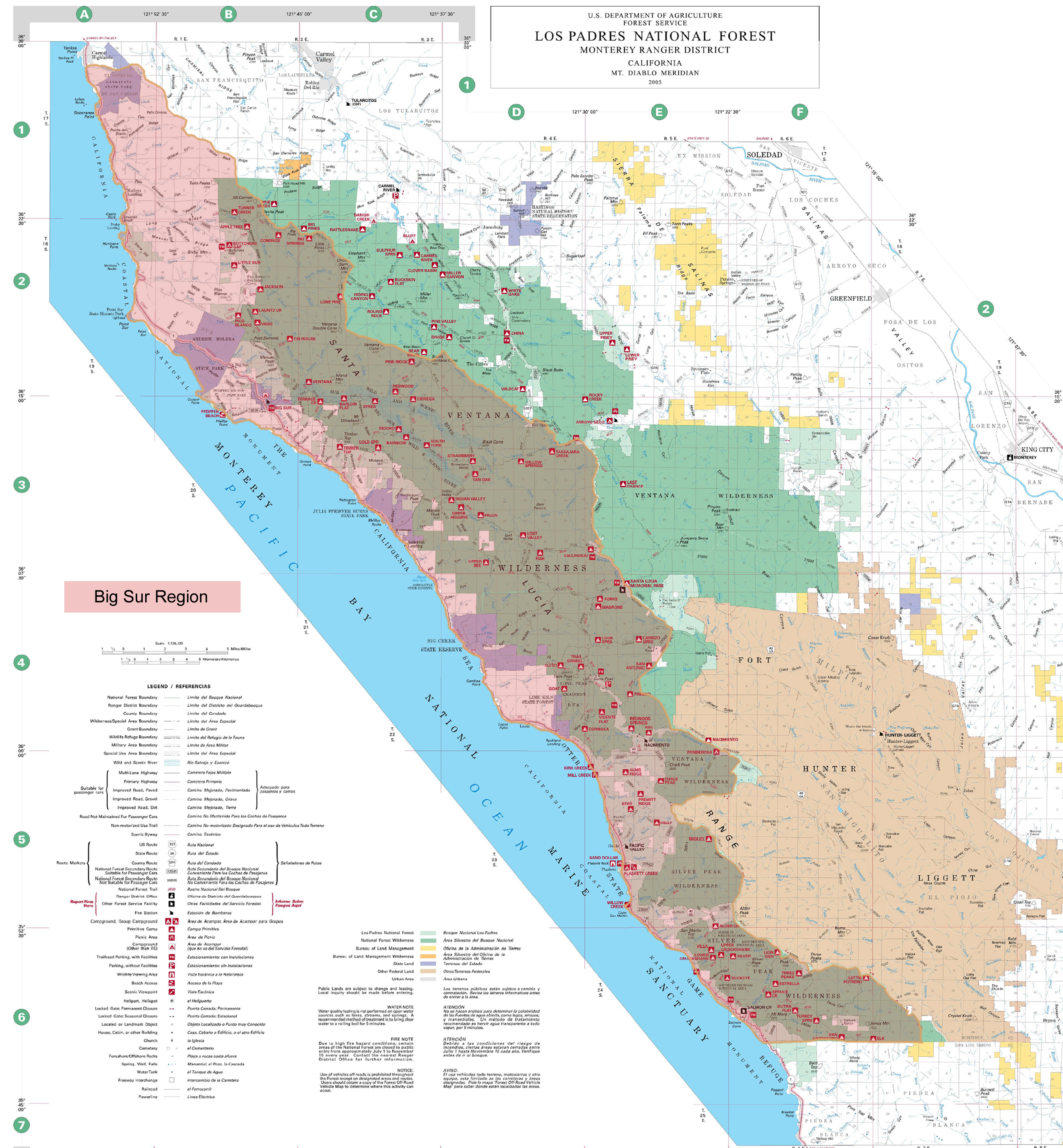 Map of the Monterey Ranger District of the Los Padres National Forest overlaid with the Big Sur region.